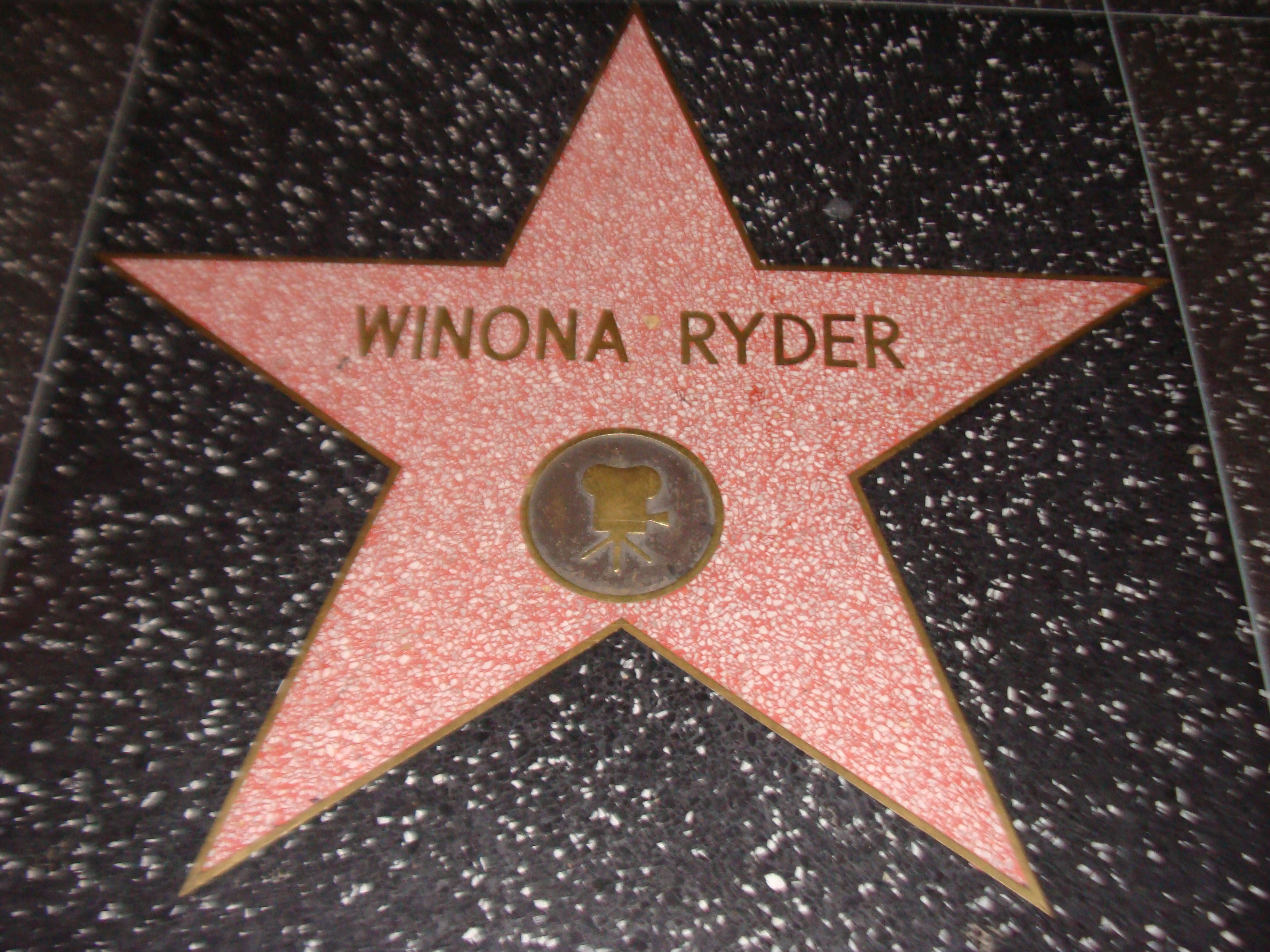 Winona Ryder's star on the Hollywood Walk of Fame, Los Angeles (California).